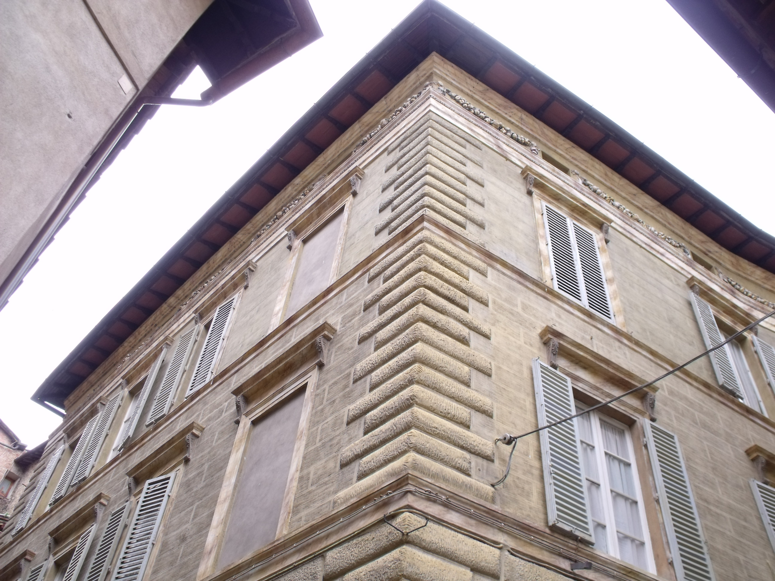 House of Antonio Federighi, Via delle Donzelle, Siena, Tuscany, Italy